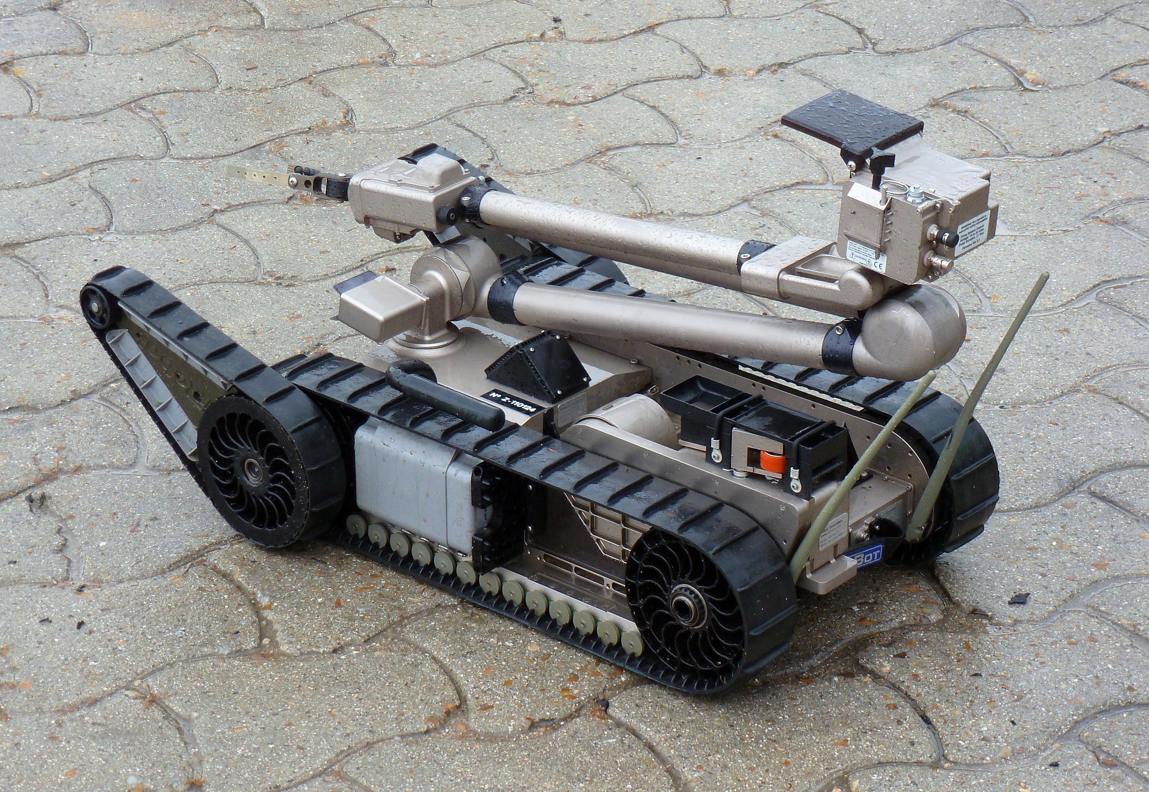 Spanish Army iRobot PackBot 510 IED robot.